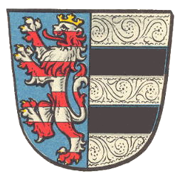 Coat of arms of Ginsheim (Ginsheim-Gustavsburg)